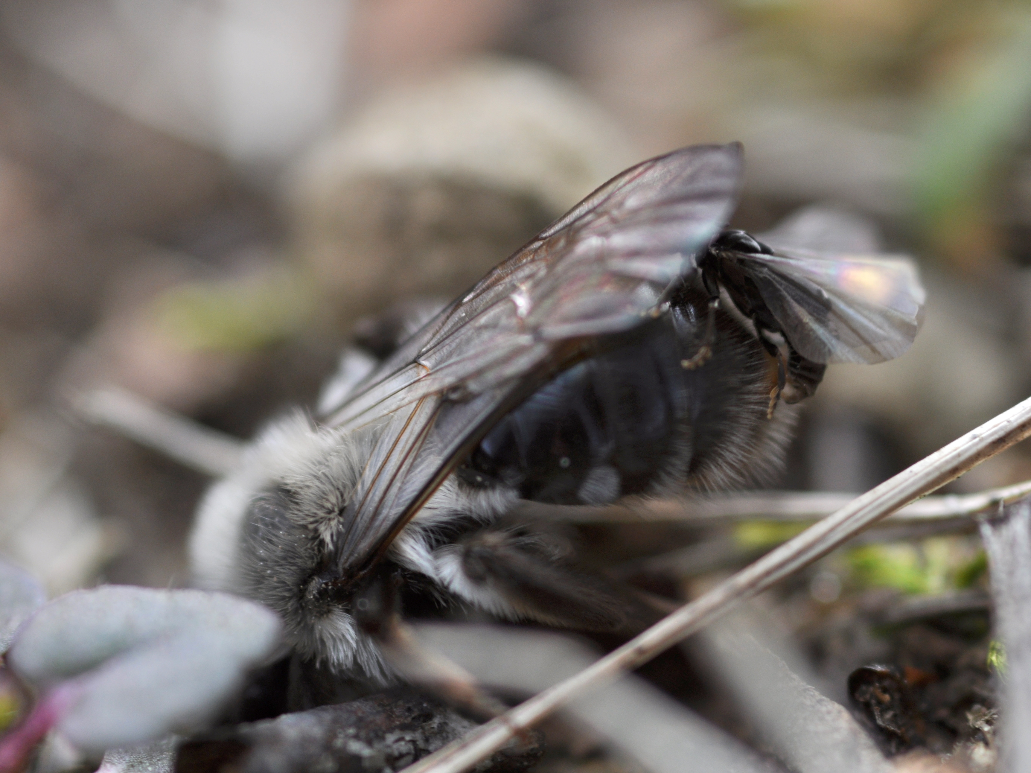 Twisted-winged parasite Stylops melittae mating on 'Andrena vaga in Bahrenfeld, Hamburg.